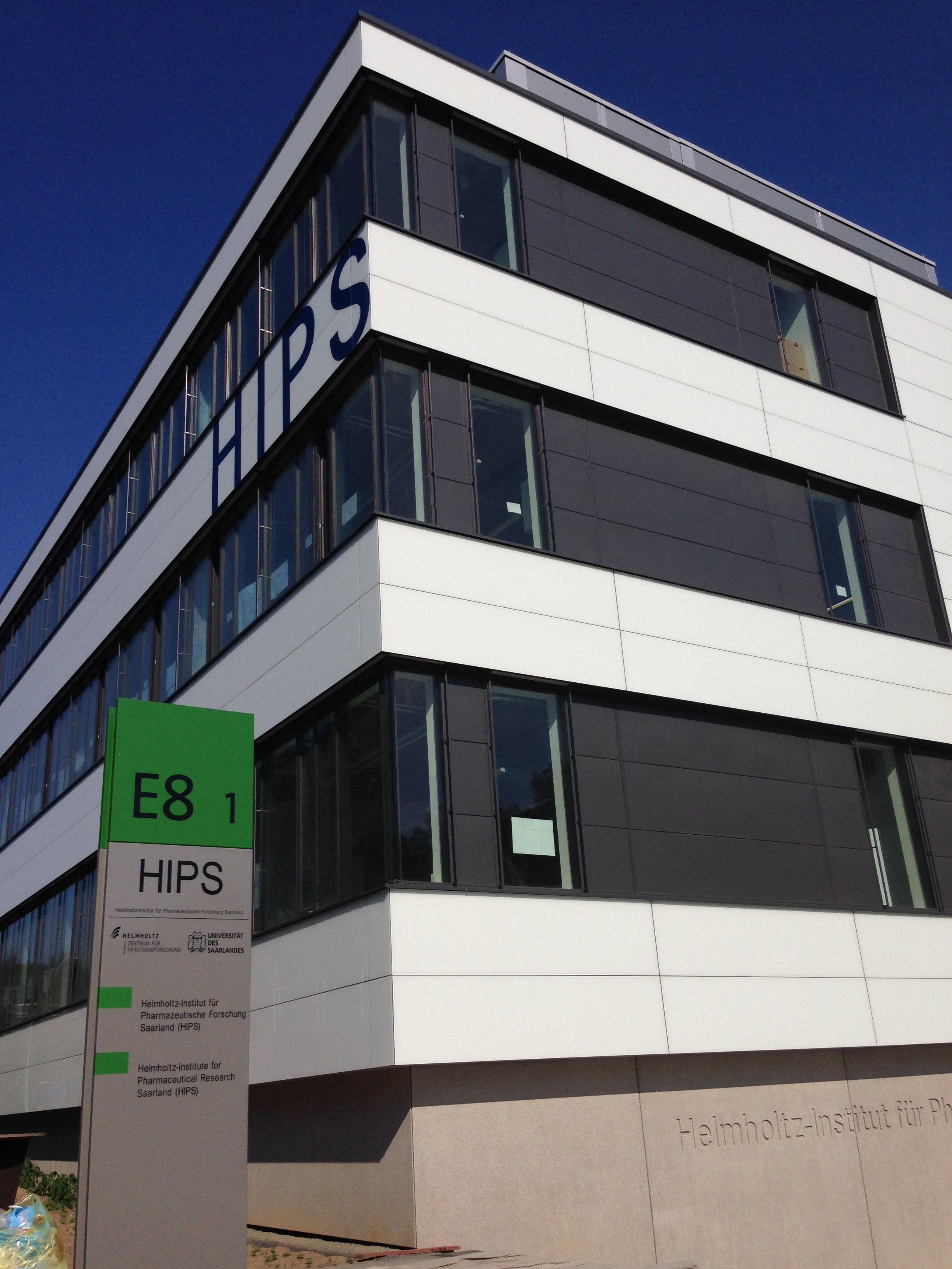 HIPS building (official number: "E8.1") on Saarland university campus, approaching the main entrance